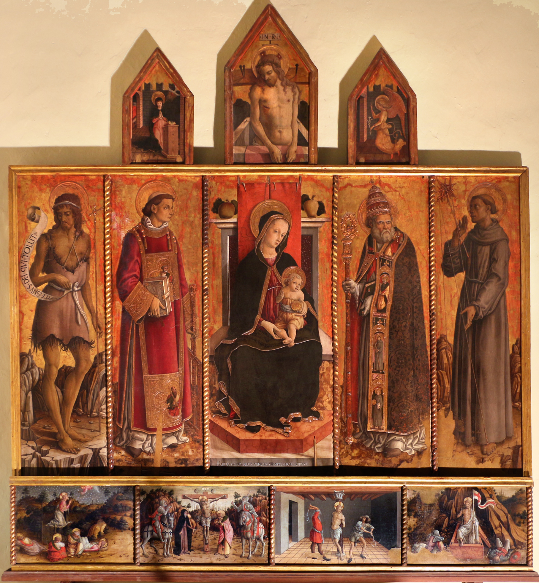 Massa Fermana Polyptych